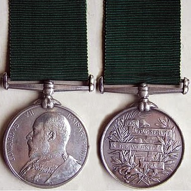 The King Edward VII version of the Volunteer Long Service Medal for India and the Colonies with a double-toe claw suspender mount